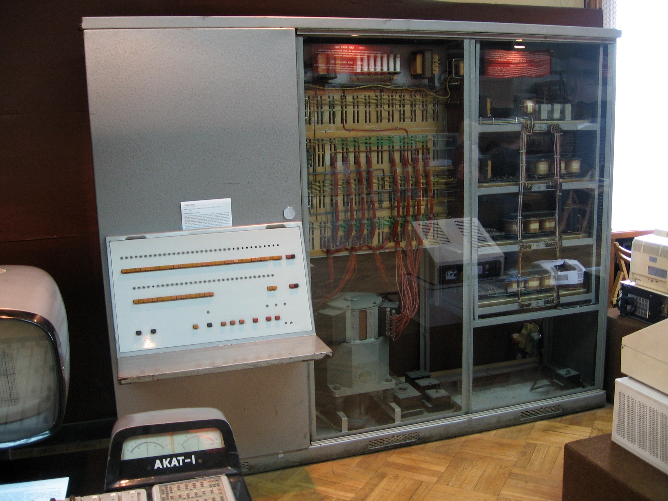 From 1962, the first electronic digital computer of the Odra family.